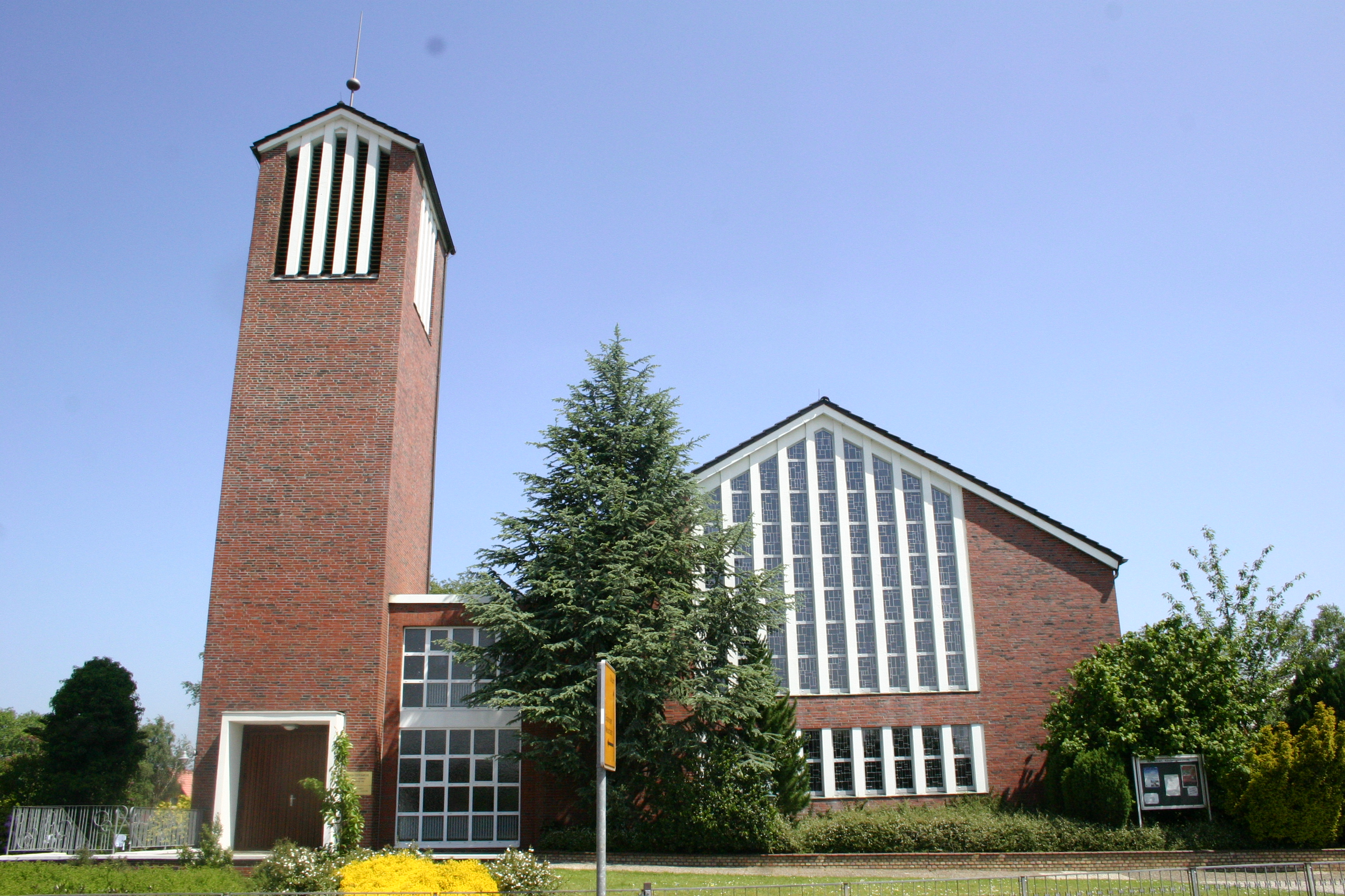 Old-reformed church in Bunde, district of Leer, East Frisia, Germany